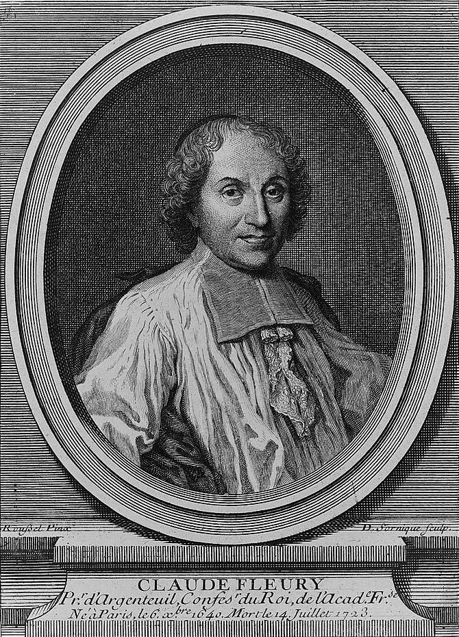 French church historian Claude Fleury (1640–1723). Engraving by Dominique Sornique (1708–1756) after Roussel.